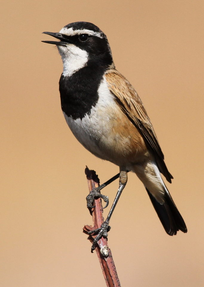 Capped Wheatear, Oenanthe pileata at Suikerbosrand Nature Reserve, Gauteng, South Africa